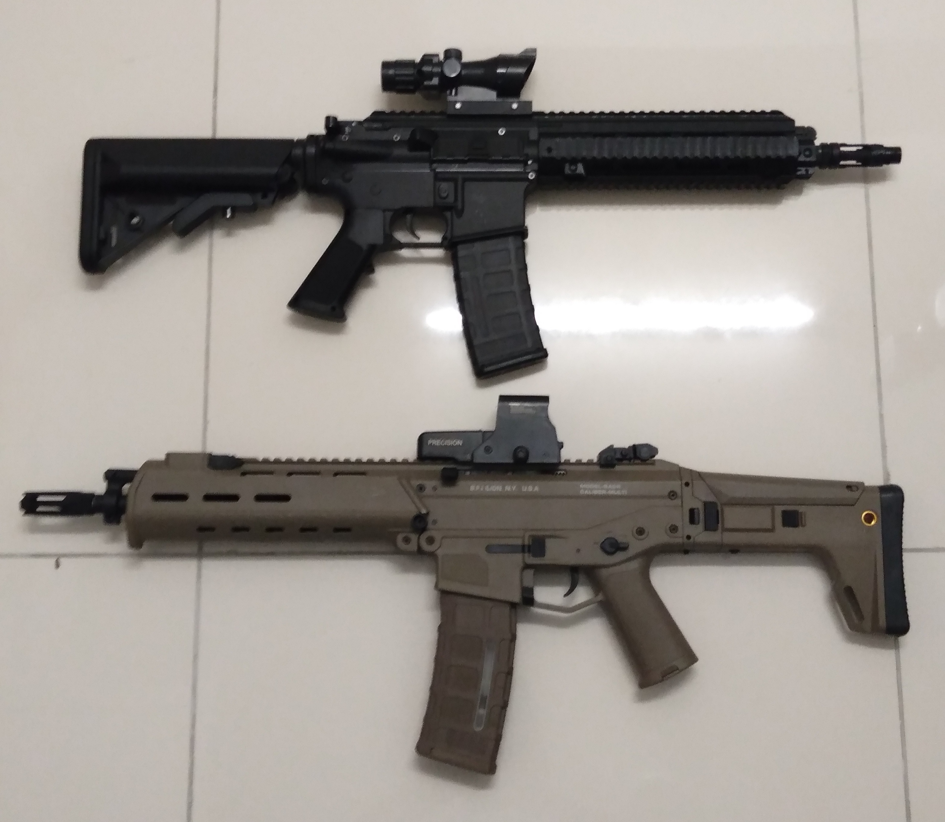 A two water gel guns (gel blasters) replicas. The top gun is HK416 made by MaLiang while the below is ACR J10 made by Jinming.